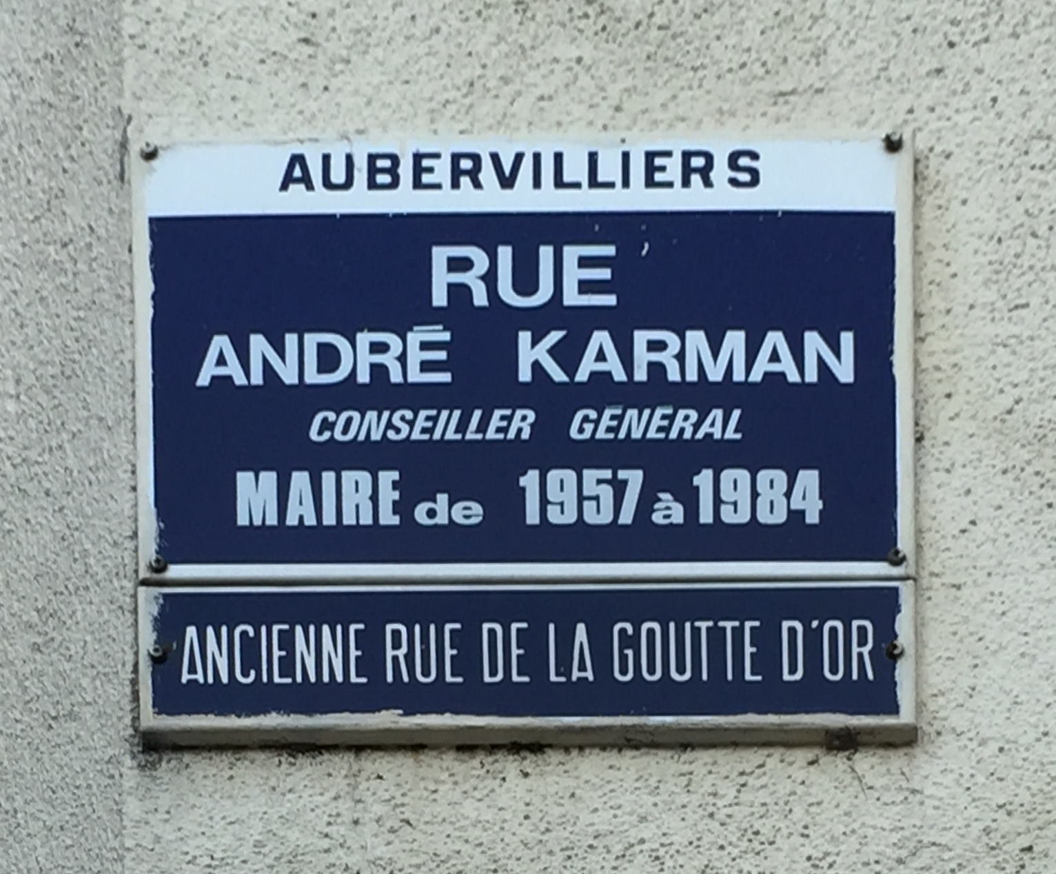 This photograph was taken with an iPhone 6